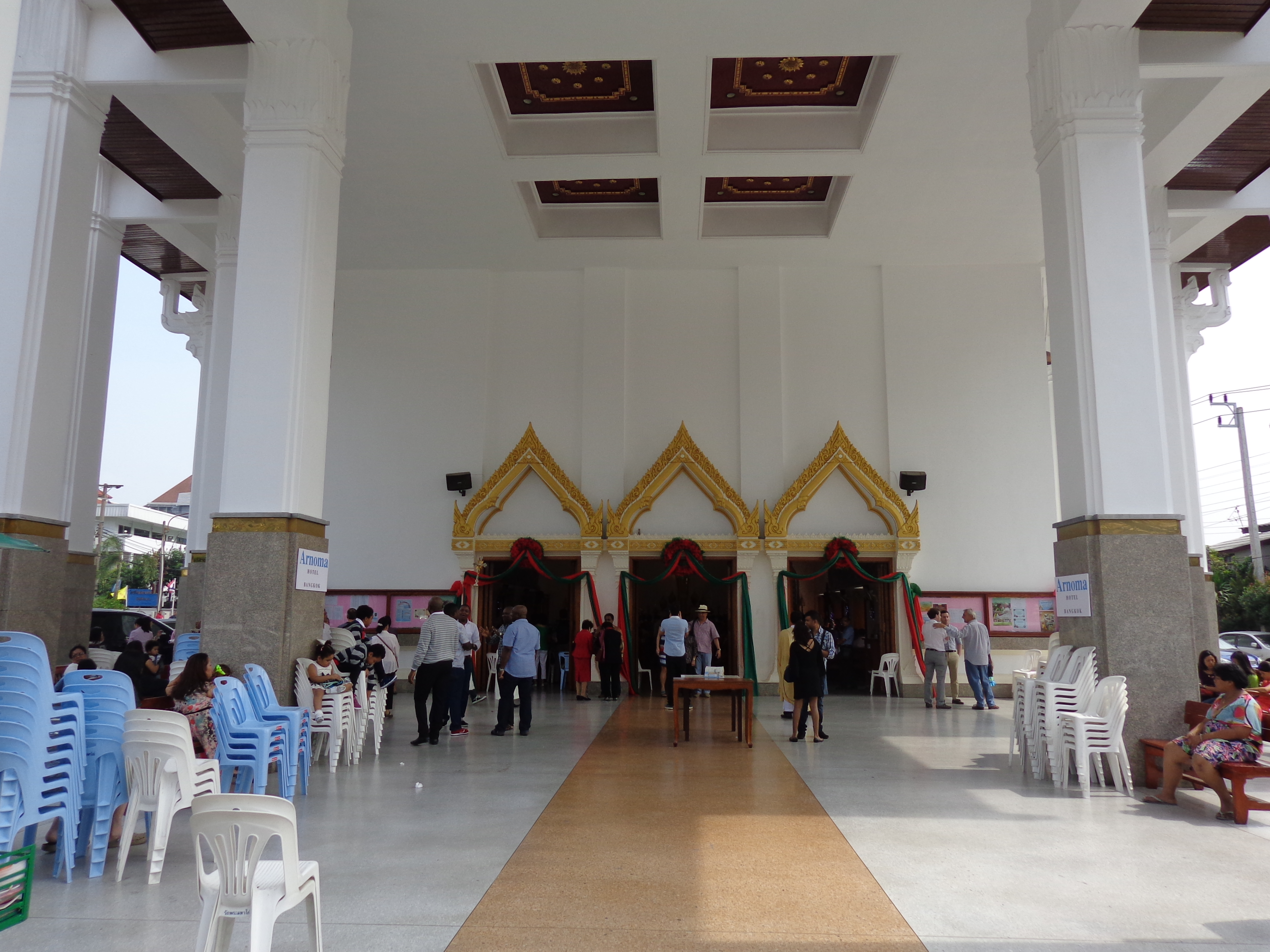 Entrance to the Holy Redeemer Catholic Church in Bangkok, Thailand